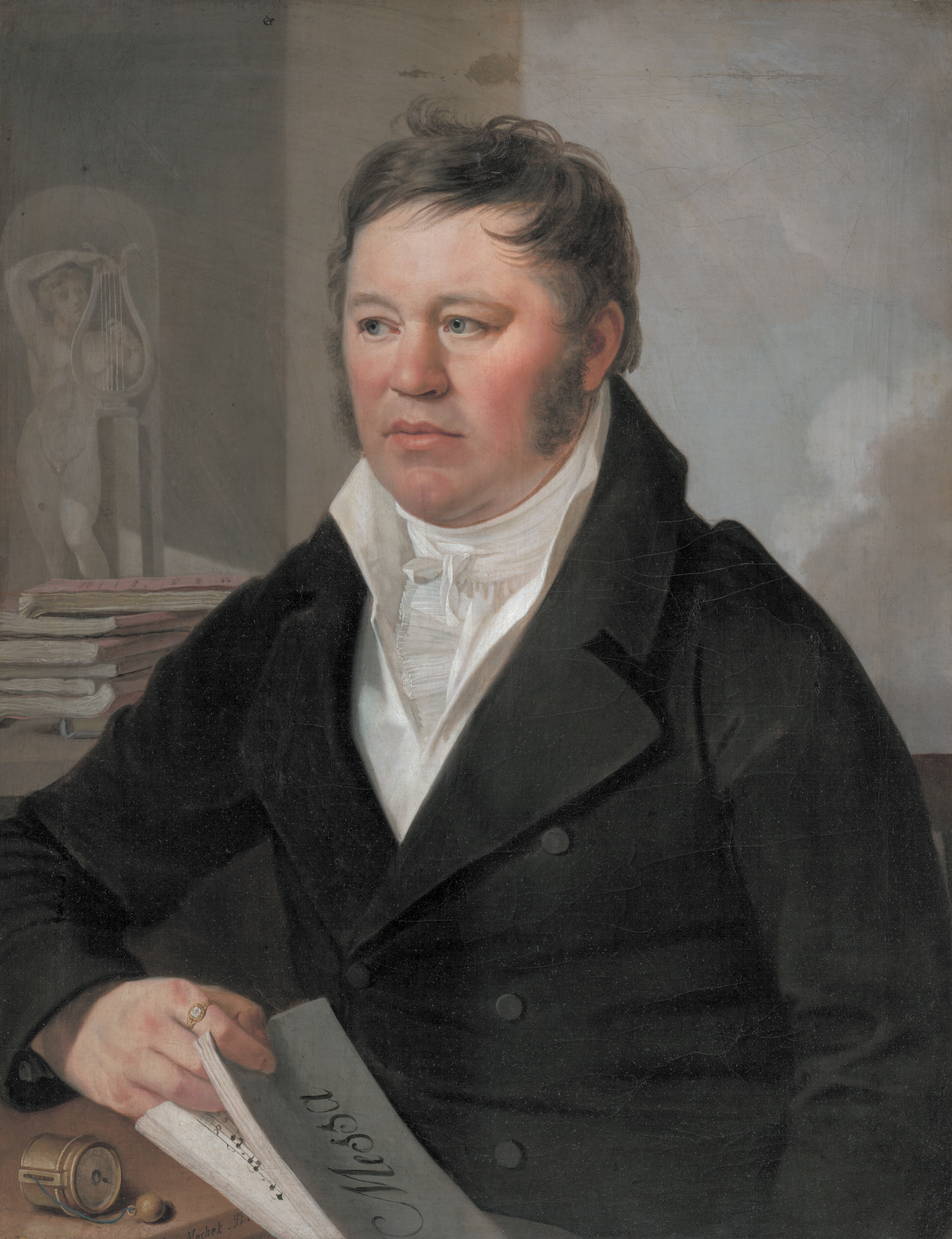 The composer V. J. Tomášek oil on canvas 79 x 61 cm signed b.l.: Machek pin. after 1816